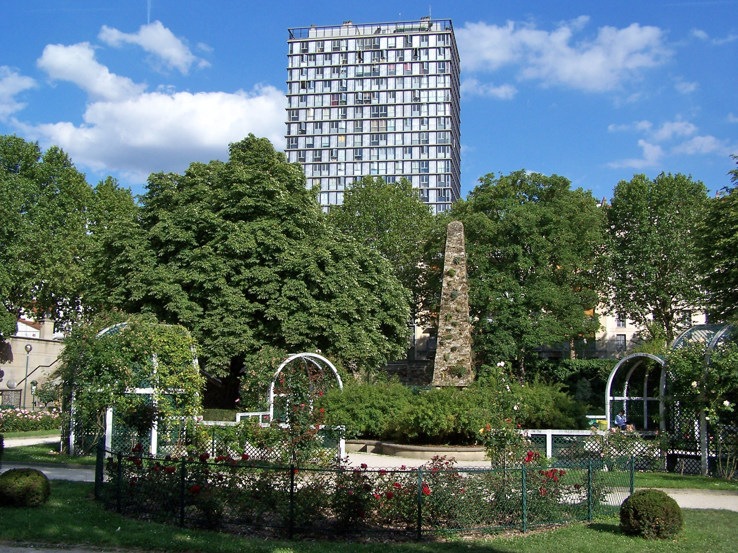 View of the rose garden and the obelisk of the square René-Le Gall in Paris. In the background emerges the Tour Albert.